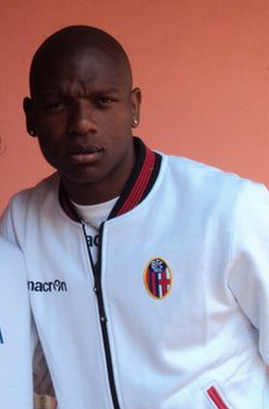 mudingayi